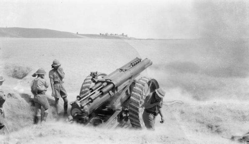 British 60-pounder gun recoiling after firing in Mesopotamia.